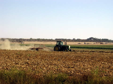 Tractor, Arad, Israel